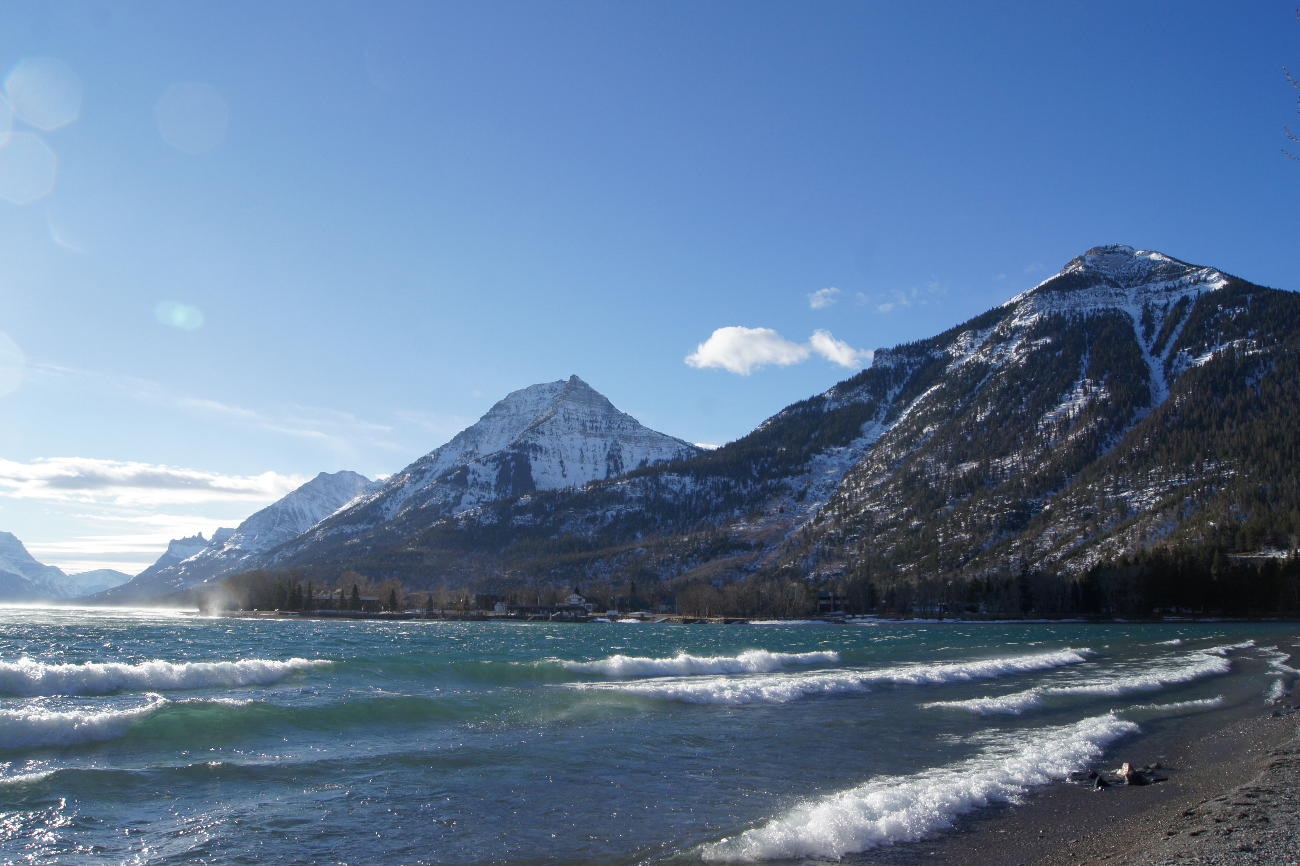 View of the mountains of Waterton National Park